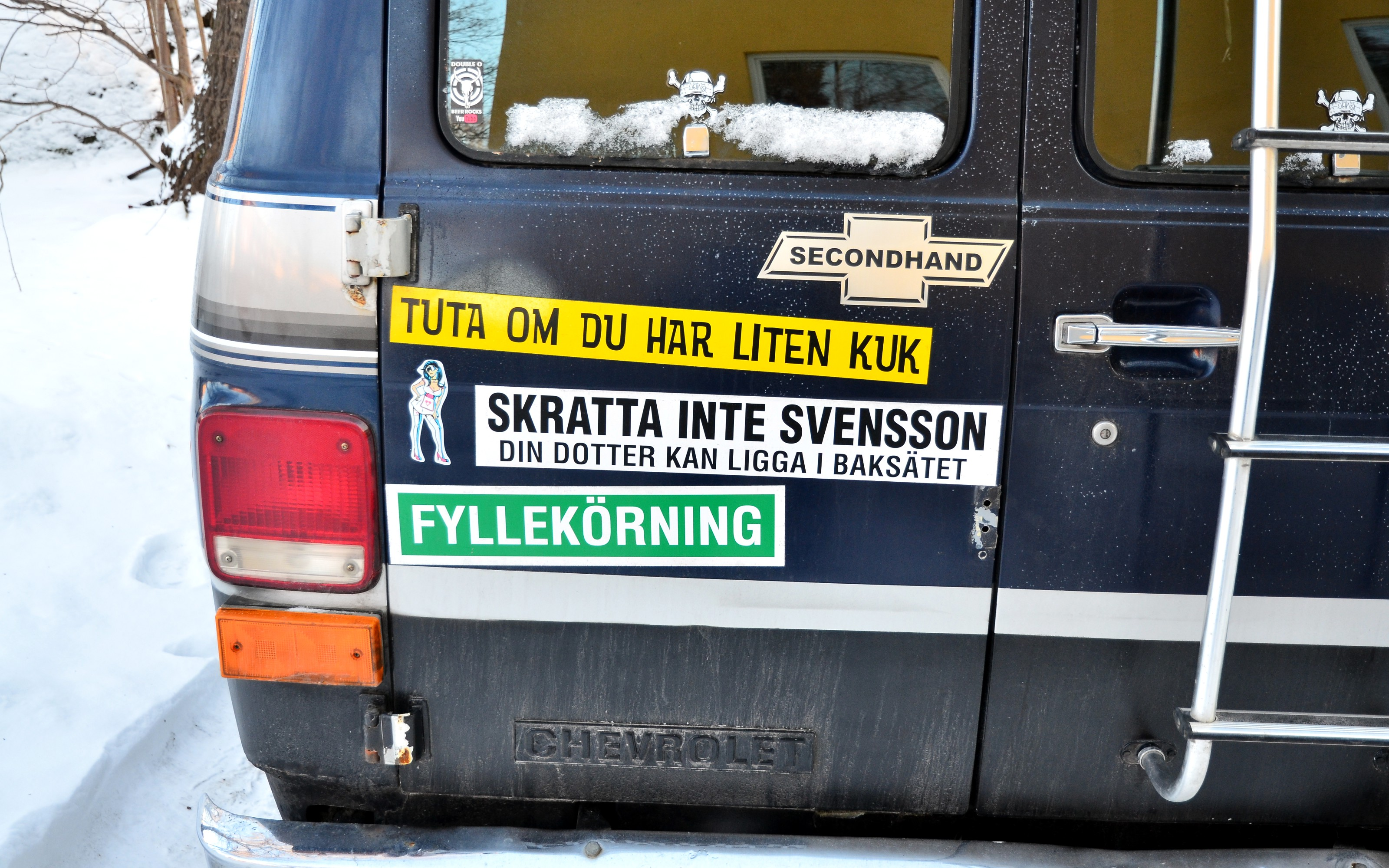 Bumper stickers